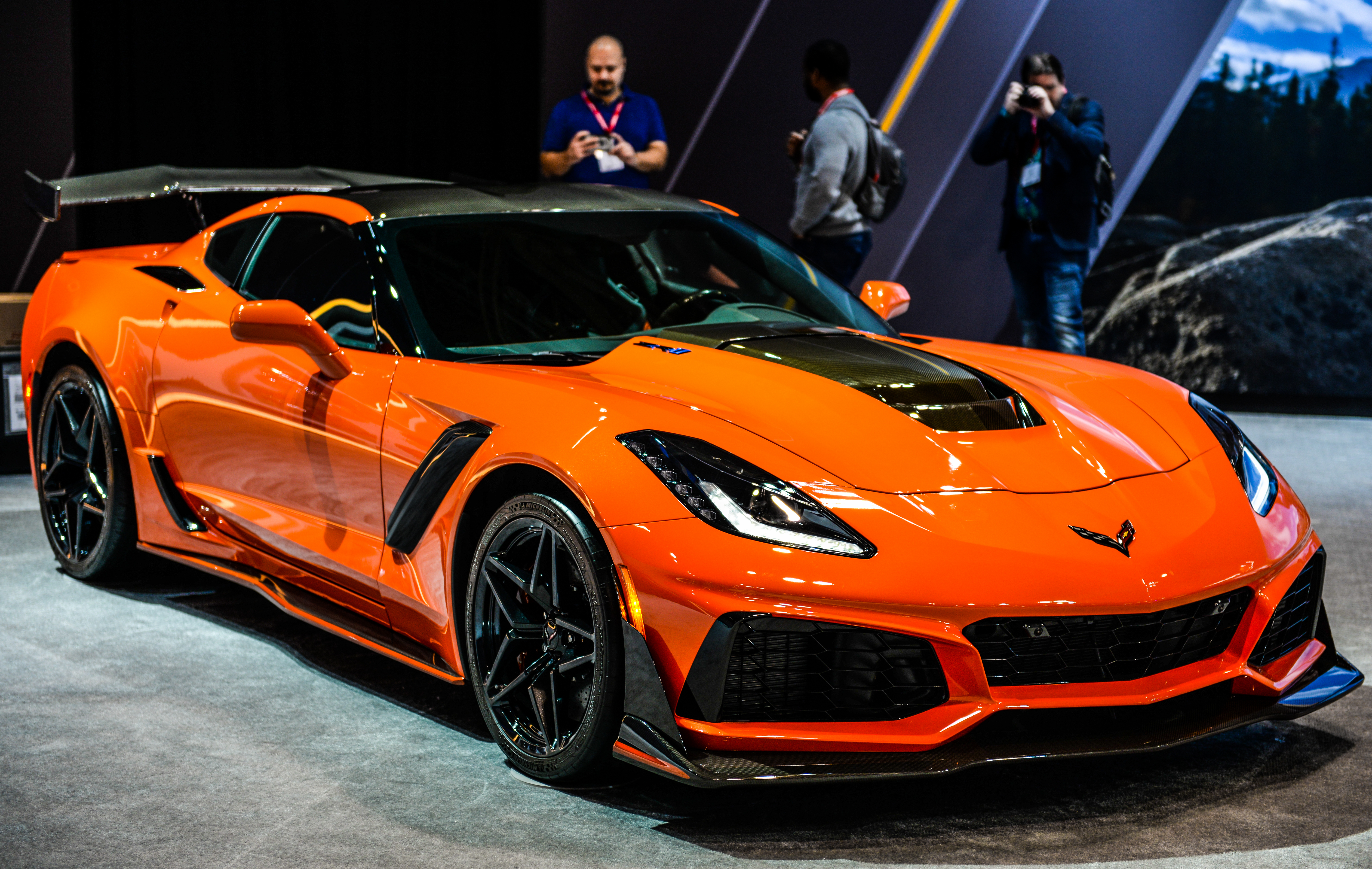 CIAS (1 of 1)-13